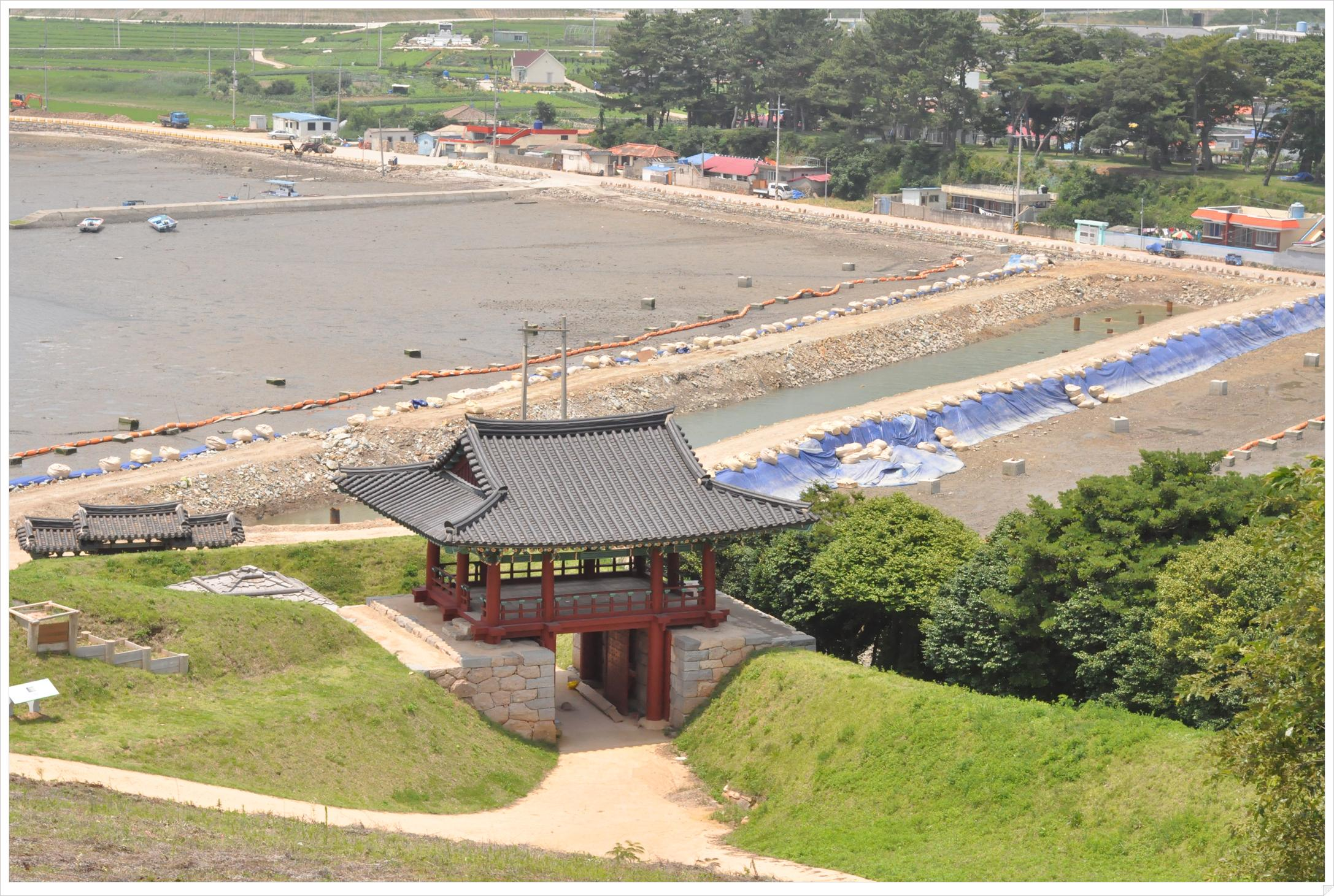 내성문에서 바라본 외성문 (Out Gate of Chunghaejin)